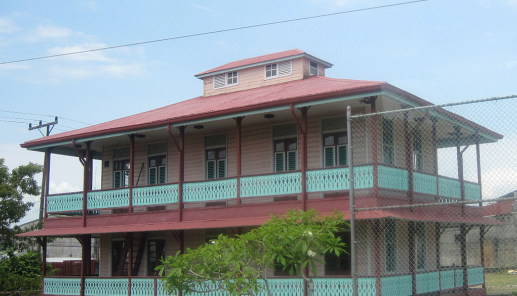 Historic Building at Limón, Costa Rica, built in 1887 by the Baptist Reverend Joshua Heath for the promotion of the Baptist Faith when the Jamaicans were brought for the construction of the railroad.